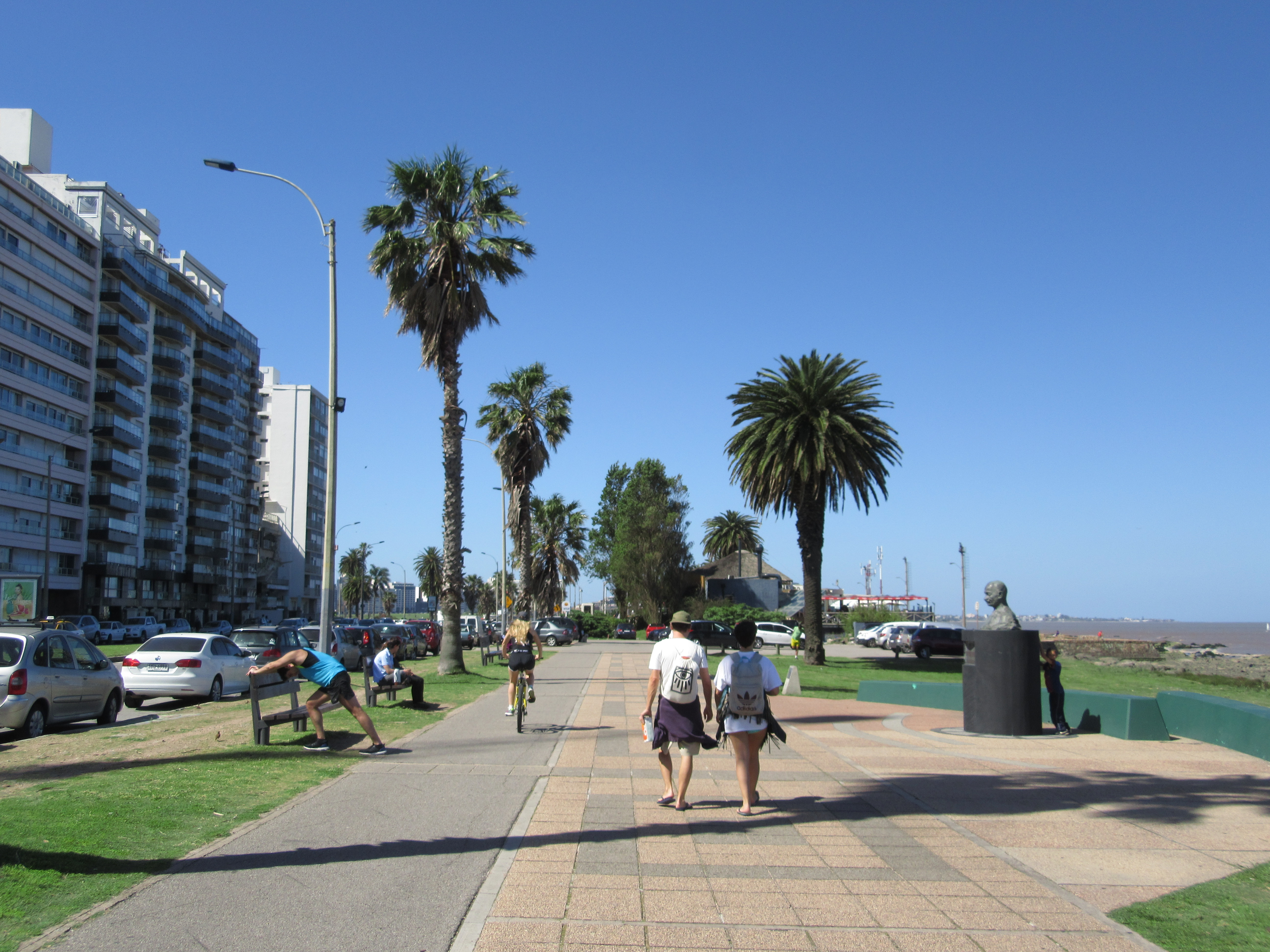 Montevideo